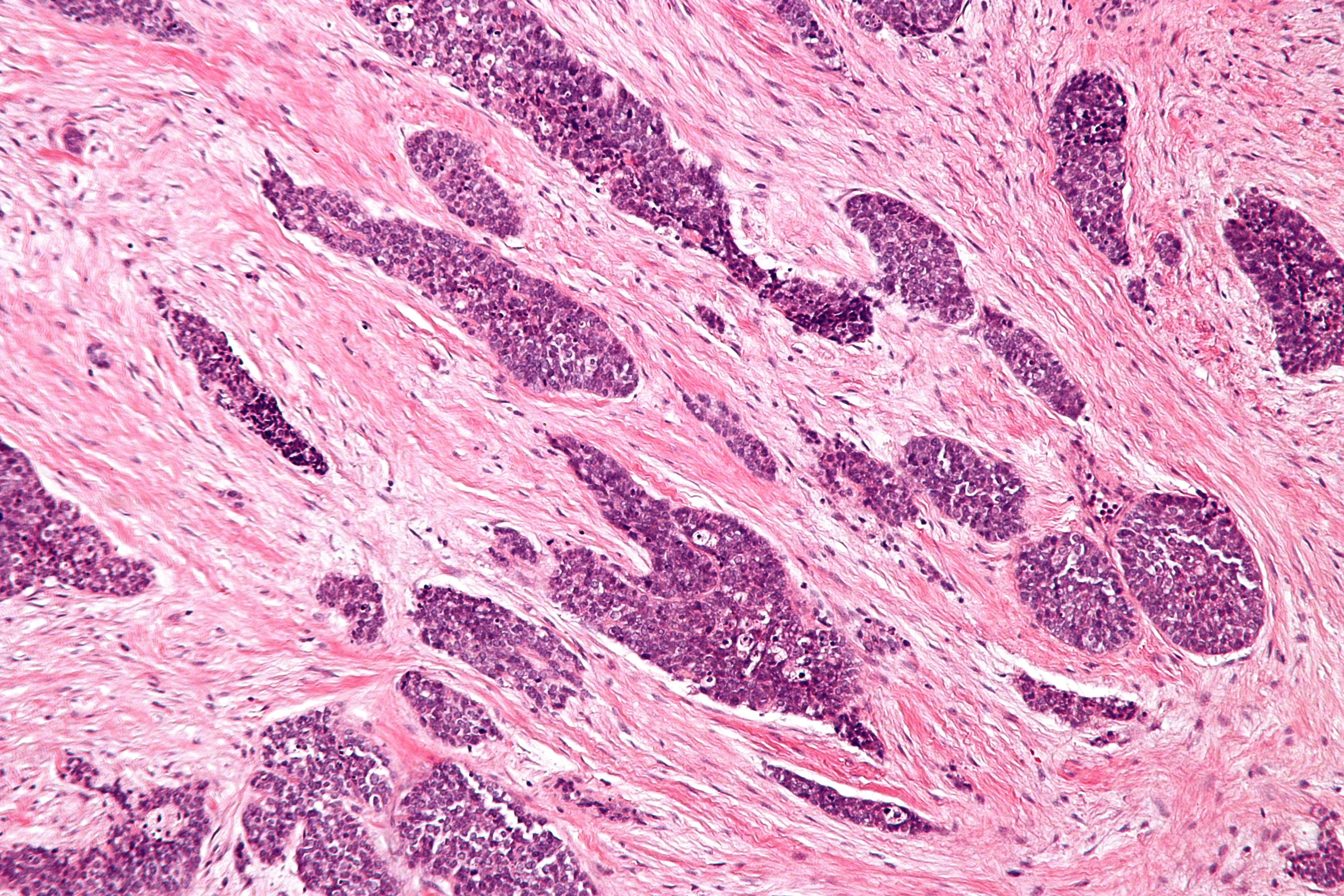 Intermediate magnification micrograph of a desmoplastic small round cell tumour, also desmoplastic small round cell tumor. It is commonly abbreviated DSRCT. H&E stain. Related images Intermed. mag. High mag. Very high mag.